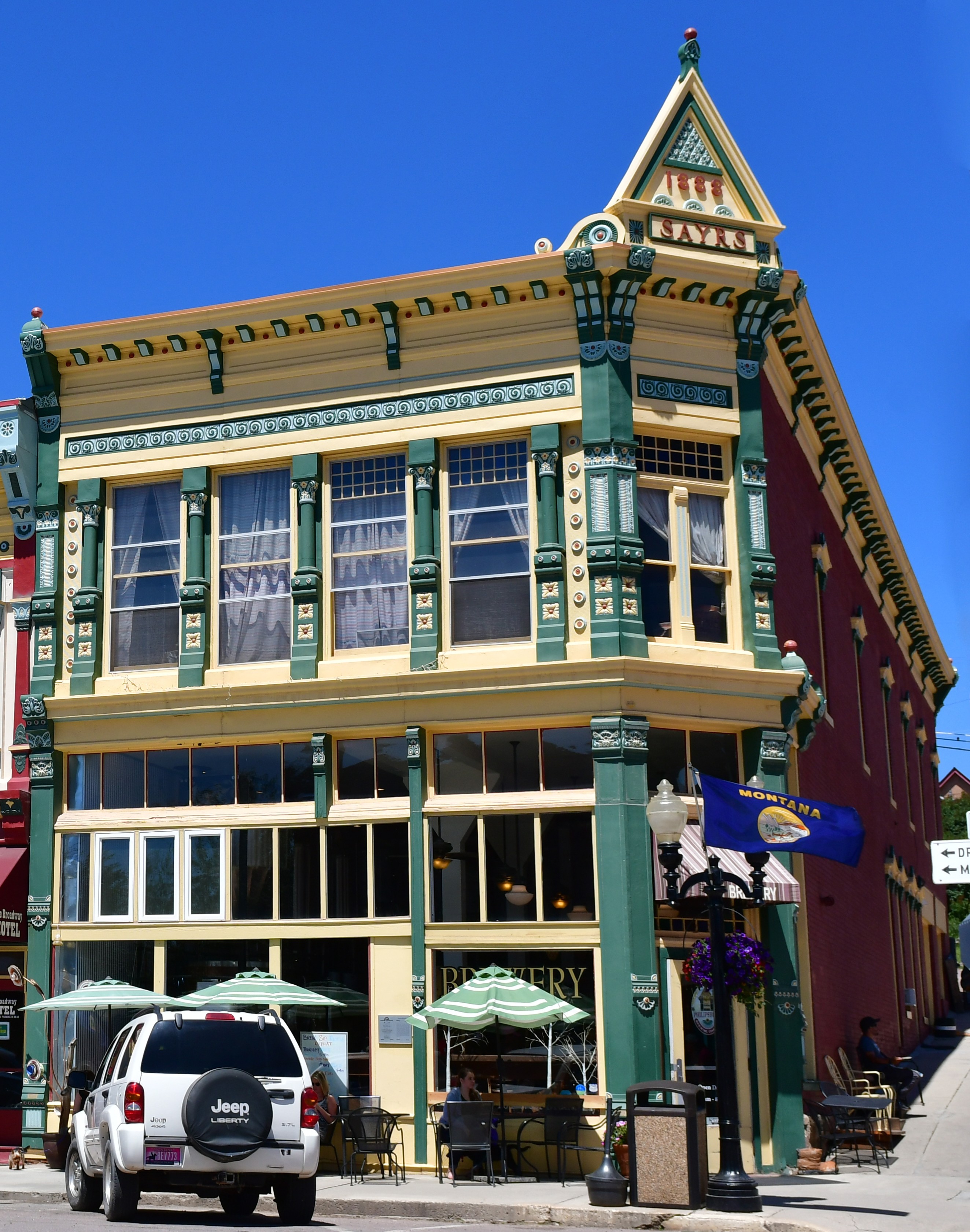 The Sayrs Building, Broadway in Philipsburg (Montana, USA) was built by banker Joseph and Mary Hyde in 1888 and known as the Hyde Block. Frank Sayrs purchased the building in 1904. Today, it houses the ​Philipsburg Brewing Company.